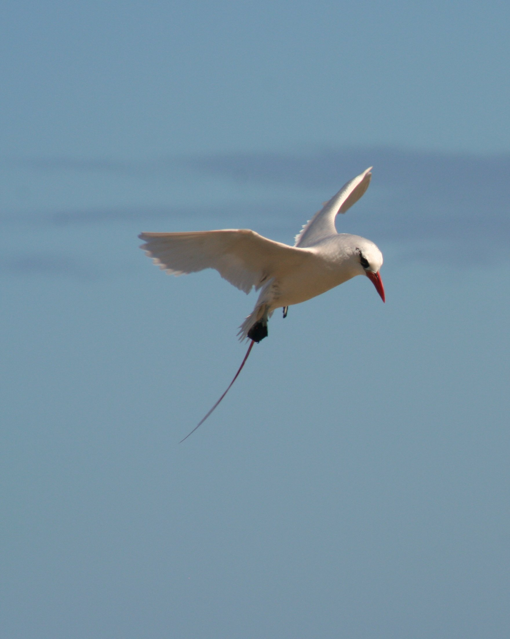 Red-tailed Tropicbird Phaethon rubricauda, Tern Island, French Frigate Shoals